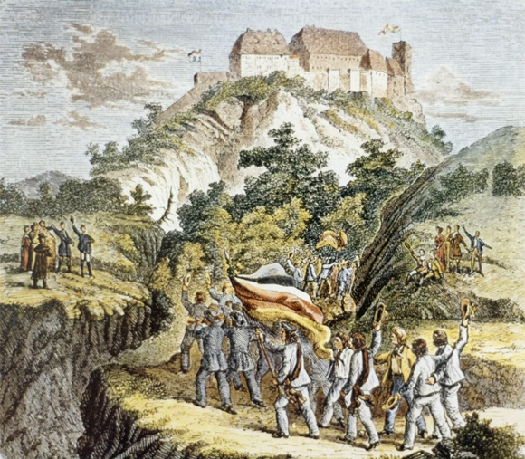 On October 18, 1817, students from various German universities met at the Wartburg castle (located near Eisenach in Thuringia) to mark the 300th anniversary of the beginning of the Reformation and the fourth anniversary of the Battle of the Nations at Leipzig. As Martin Luther’s place of refuge in 1521-22, the Wartburg was regarded as a symbol of German nationalism. The gathering, which included approximately 500 students and a number of professors, was a protest demonstration against reactionary politics and the “mini-state” system. Instead, participants favored a German nation-state with its own constitution.